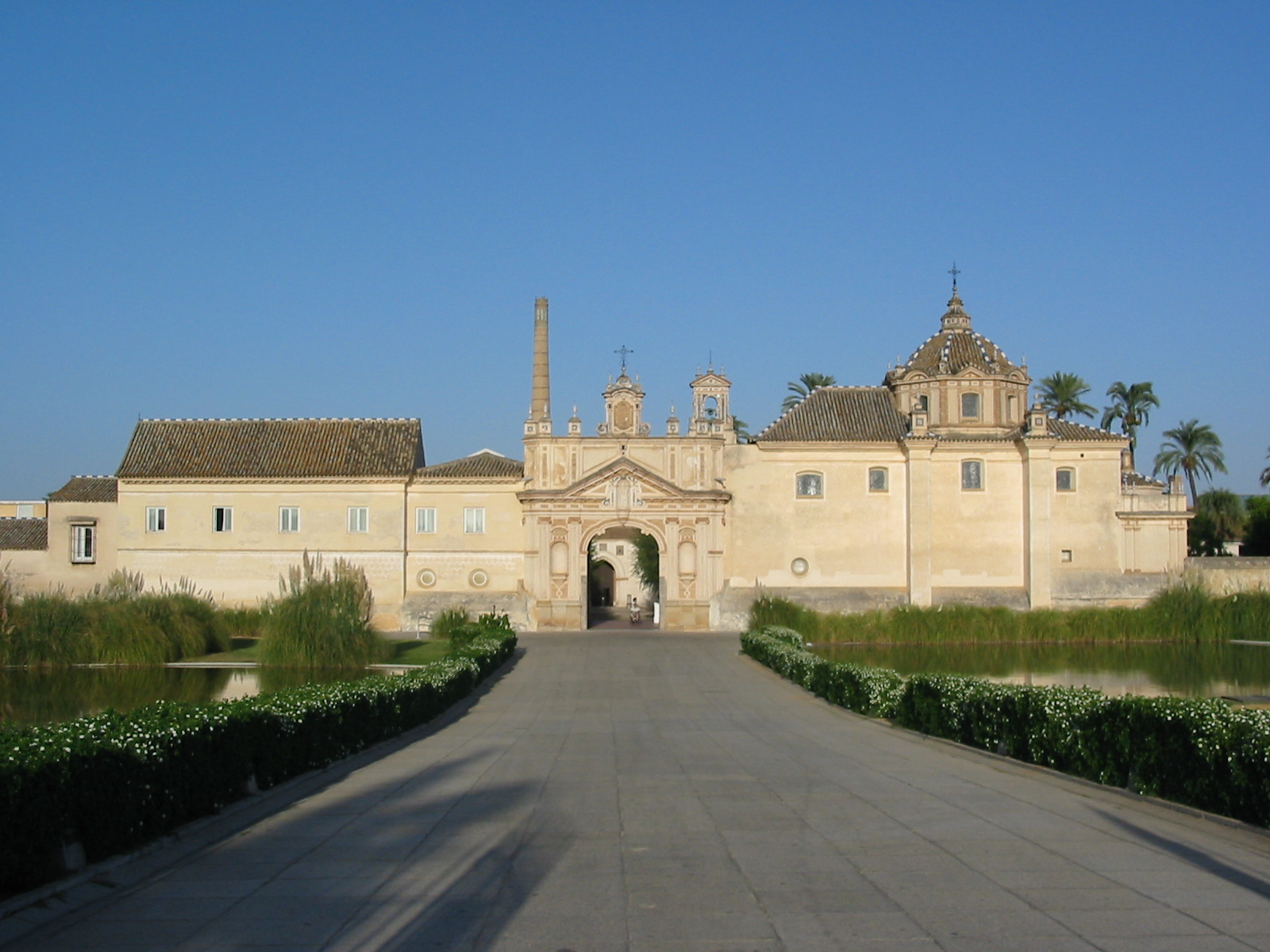 Monasterio de Santa María de las Cuevas, also known as Monasterio de la Cartuja, Seville. A former Carthusian monastery, currently housing the Museum of Contemporary Art of Andalusia. Photo by E Asterion u talking to me?